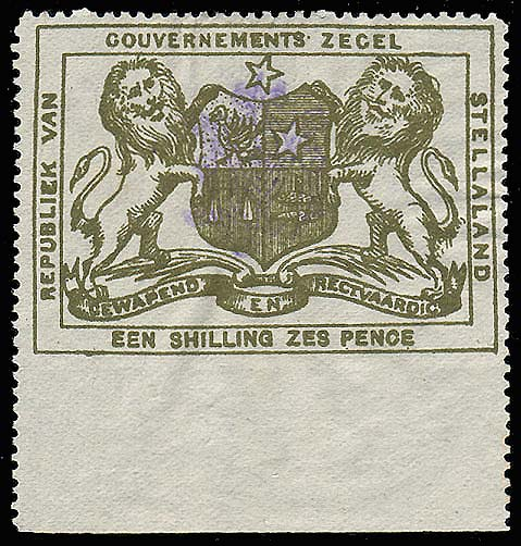 1886 revenue stamp of Stelland (1884 issue handstamped with faint JPM monogram in 1886)